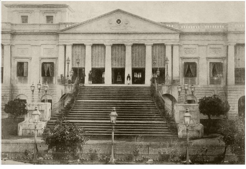 The Palace of Nashipur which was the court of Debi Singha.